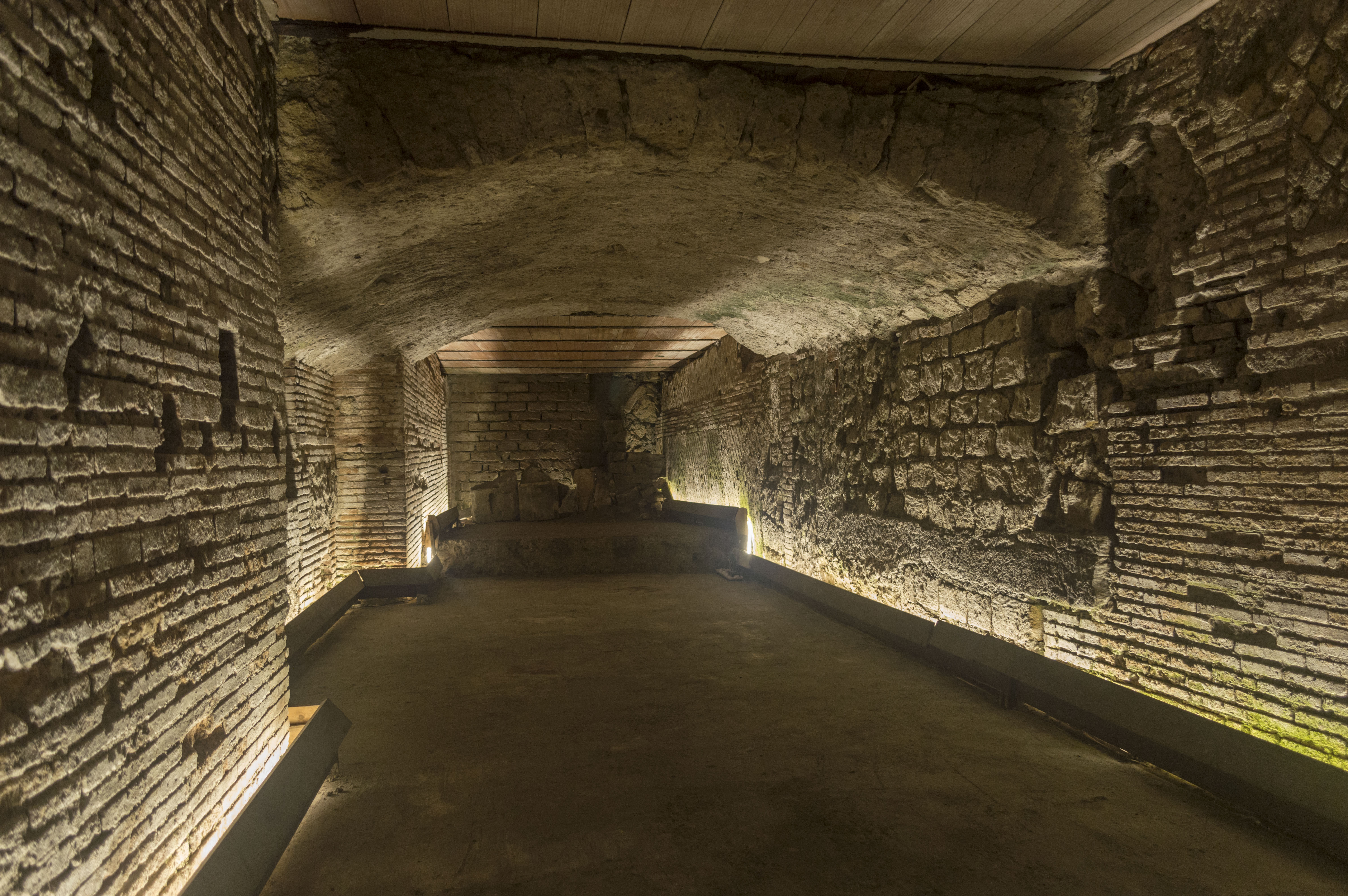 Underground of Naples. Remains of the Theatre.